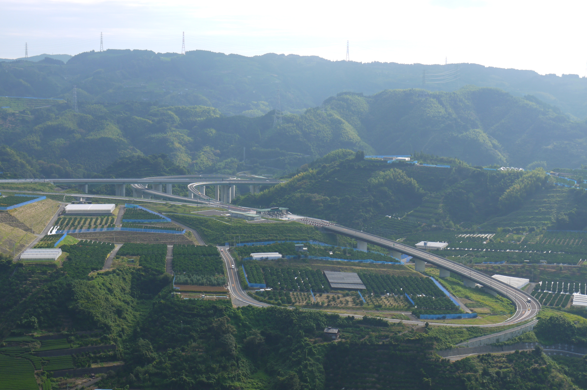 Shimizu-Ihara Interchange in Shizuoka, Shizuoka.